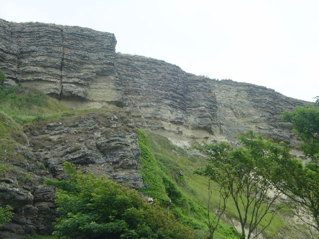 Blackgang Cliffs. These cliffs overlooking Blackgang Chine and its theme park are made of shale. The Isle of Wight has become famous as, "Dinosaur Isle" and it is in rocks like these that fossils have been found.